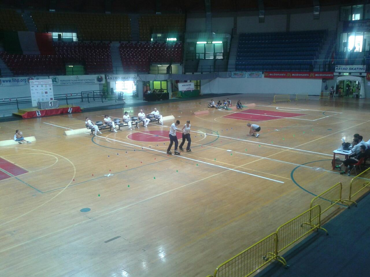 Inline skating freestyle style slalom, Monza Italian Championship.